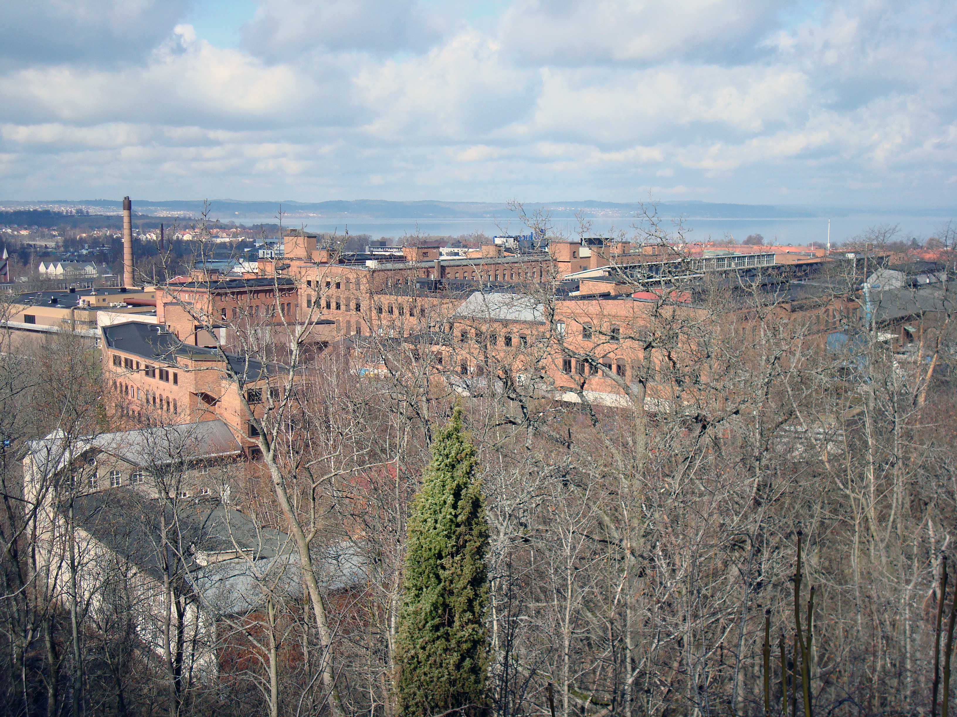 The factory park of Husqvarna AB in Huskvarna, Sweden